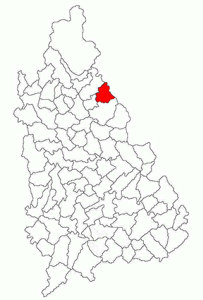 Locator map of Vișinești in Dâmbovița County, Romania